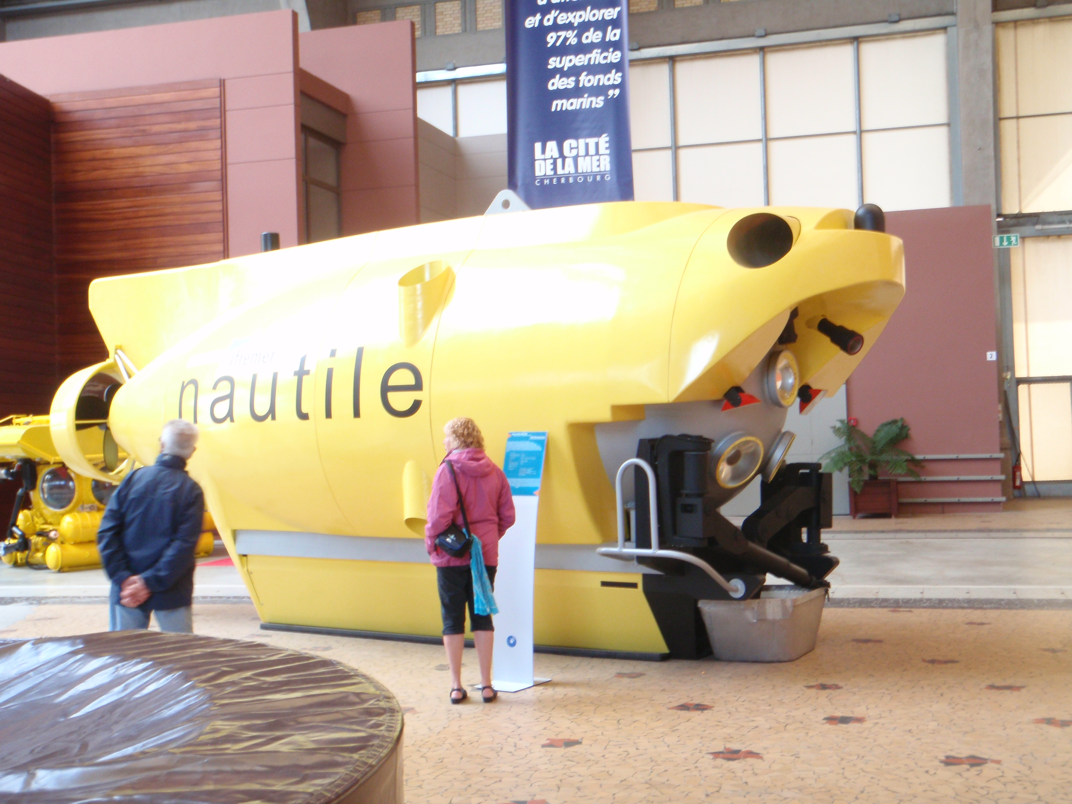 Nautile is a bathyscaph of renown. She has logged 1500+ dives, and on one visited the Titanic-wreck. Photo from maritime museum Cherbourg, France